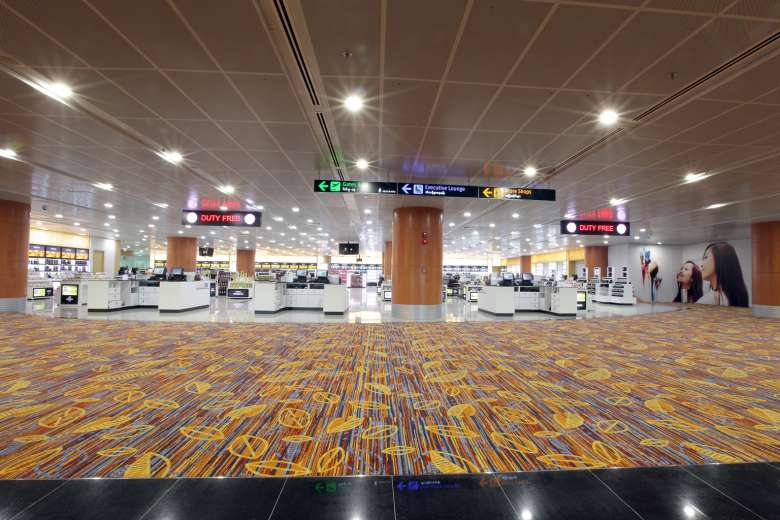 YIA-Terminal 1